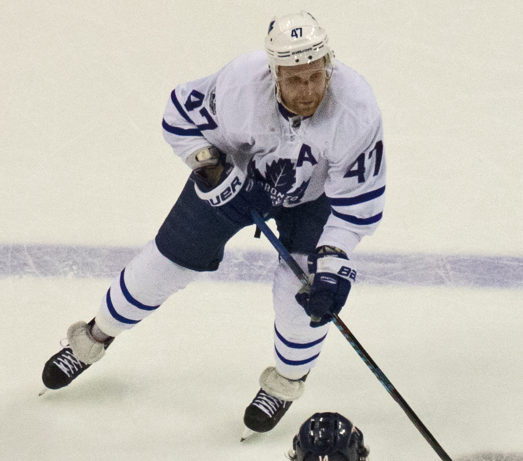 NHL 2017 Playoffs, Round 1, Game 5: Capitals 2, Toronto Maple Leafs 1